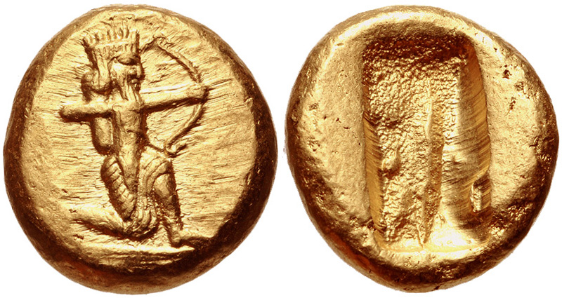 PERSIA, Achaemenid Empire. temp. Darios I to Xerxes I. Circa 505-480 BC. AV Daric (14mm, 8.32 g)